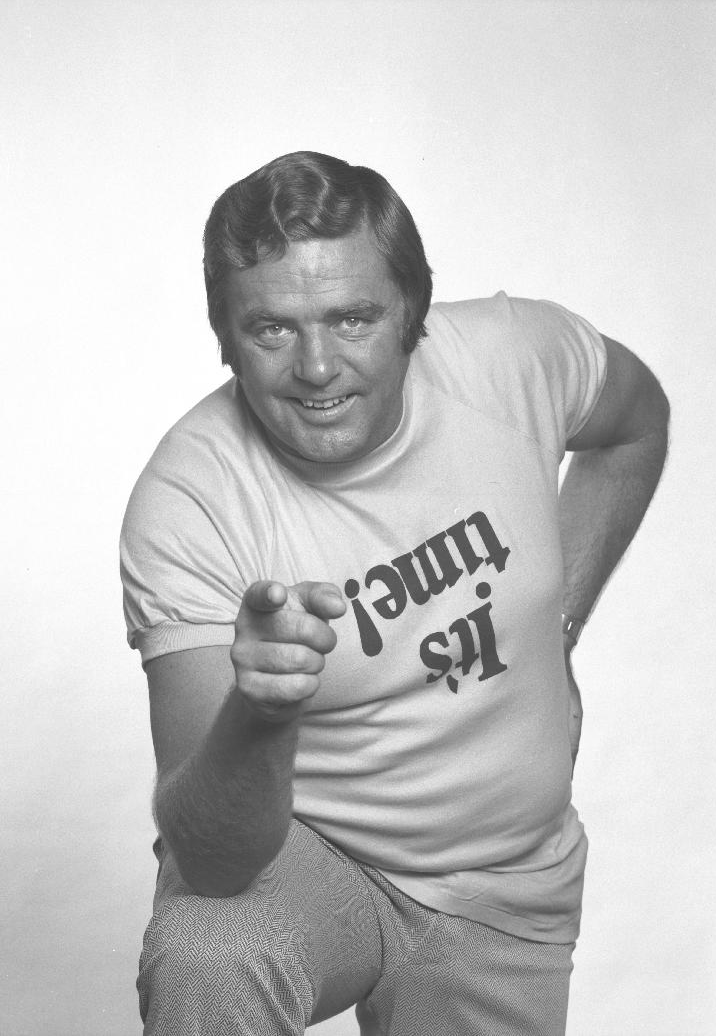 It's Time was a successful political campaign run by the Australian Labor Party under Gough Whitlam at the 1972 Federal election. Campaigning on the perceived need for change after 23 years of Liberal Party government, Labor put forward a raft of major policy proposals, accompanied by a television advertising campaign of prominent celebrities singing a jingle entitled It's Time.